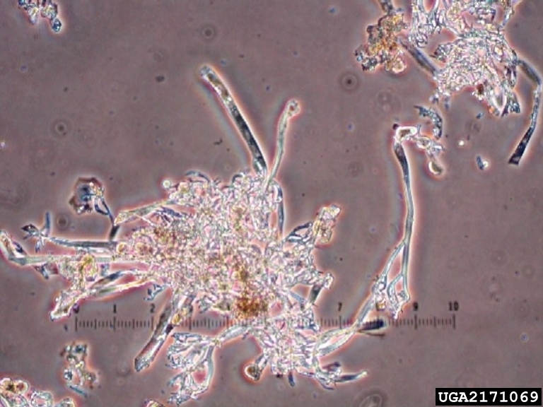 Peronospora farinosa f.sp. betae